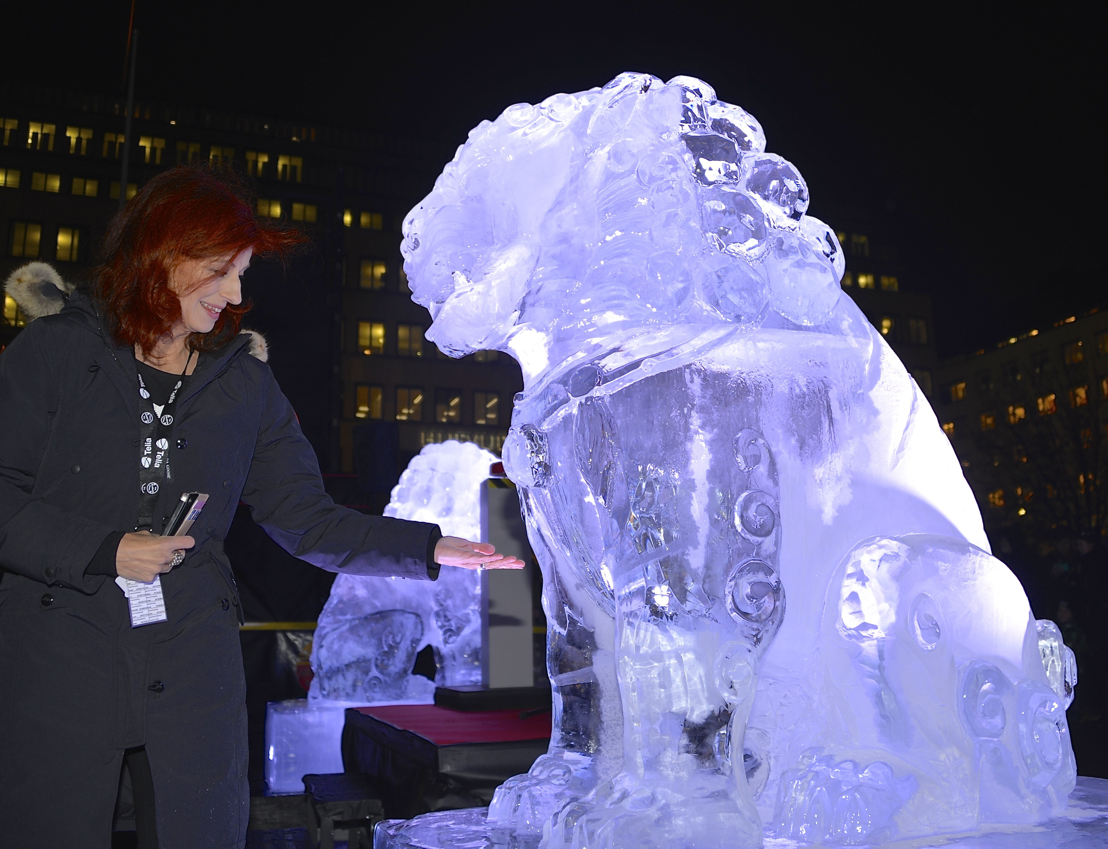 Festival Director Git Scheynius inaugurates Ai Weiwei ice sculptures at Norrmalmstorg before the Stockholm International Film Festival 2014.